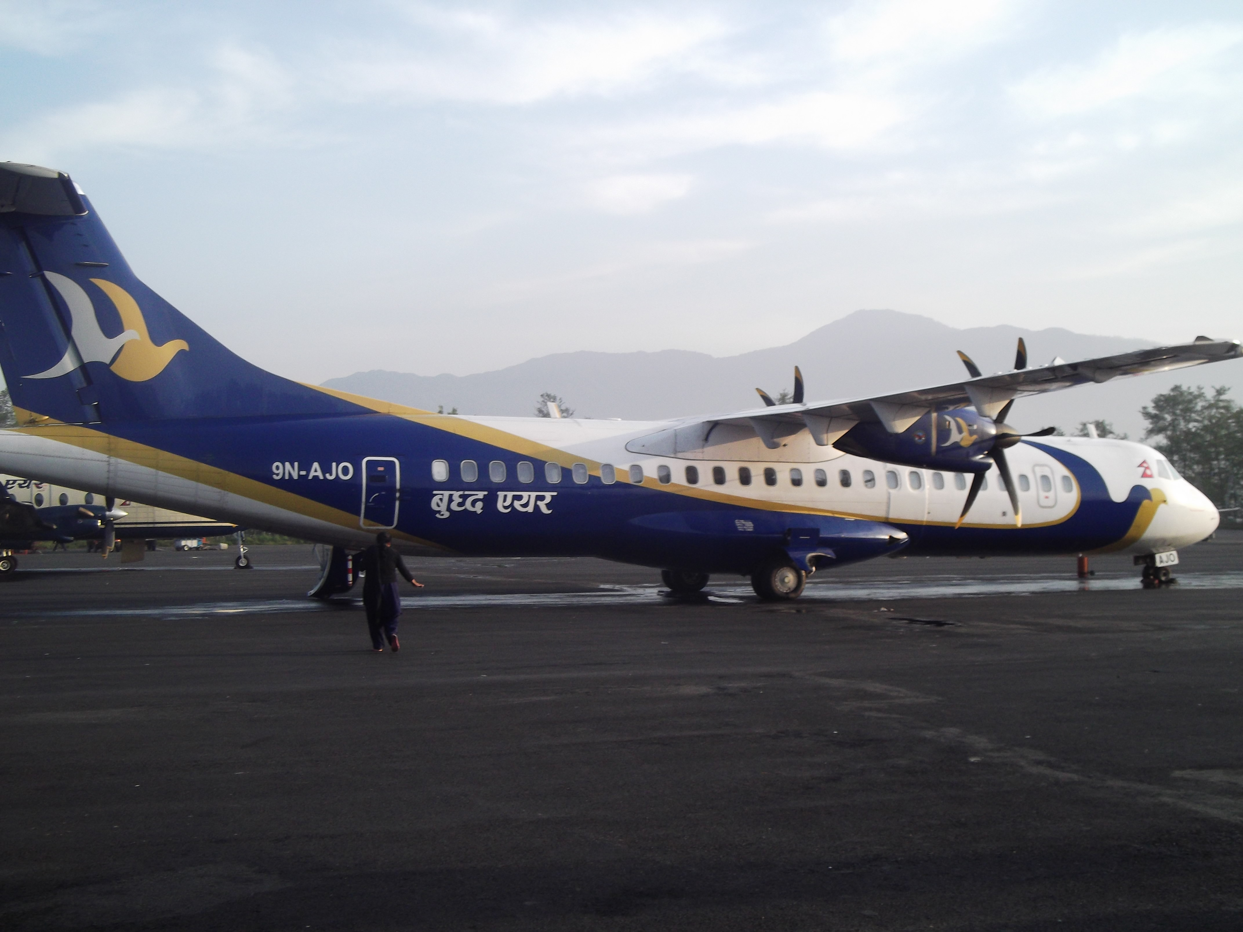 View of Buddha Air Aeroplane located on Tribhuvan Internation Airport airfield. Taken 13th April 2012.